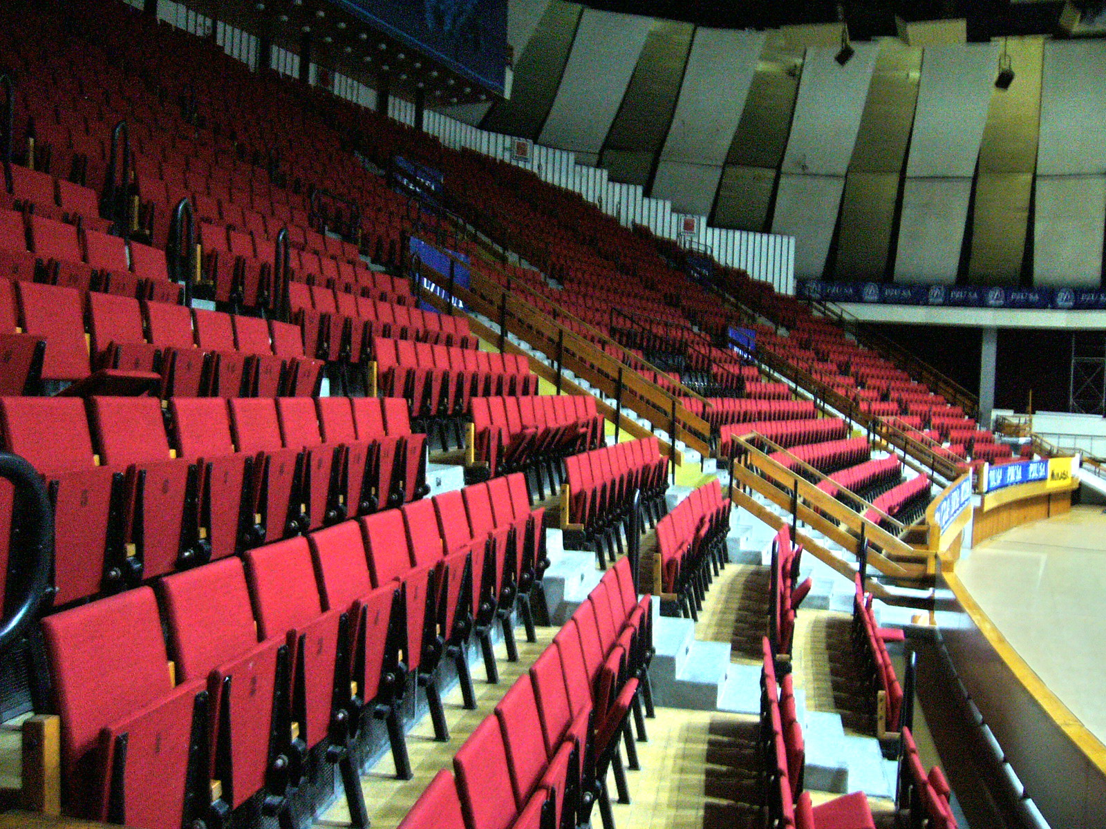 Urania Hall in Olsztyn